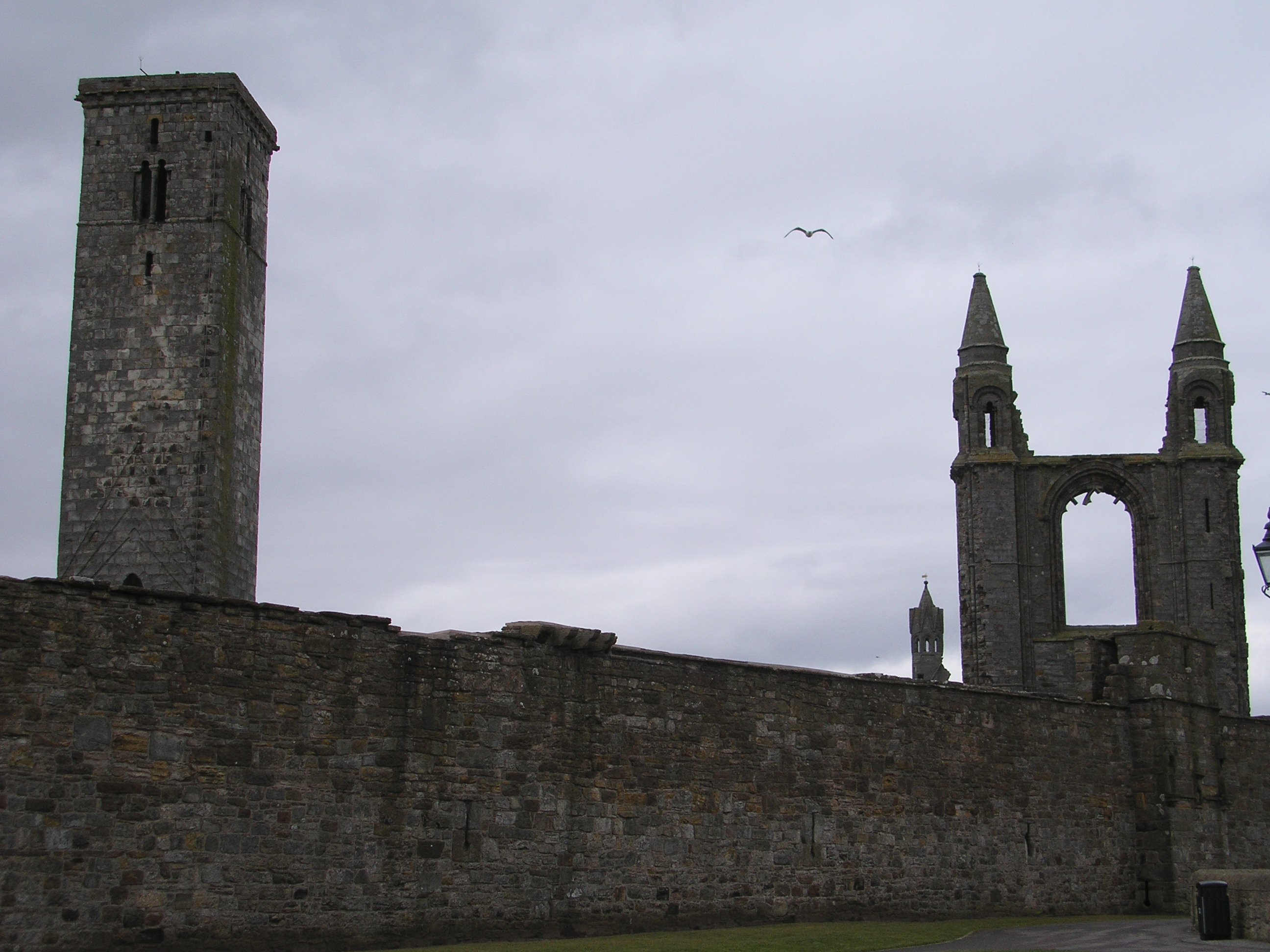 Saint Andrews Cathedral, Scotland